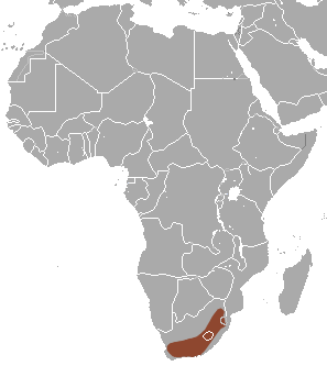 Hewitt's Red Rock Hare (Pronolagus saundersiae) range IUCN: Pronolagus saundersiae (Hewitt, 1927) (old web site) (Least Concern)